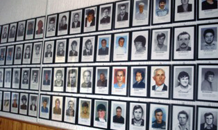 Photos of the victims of the Lovas massacre (October 1991).